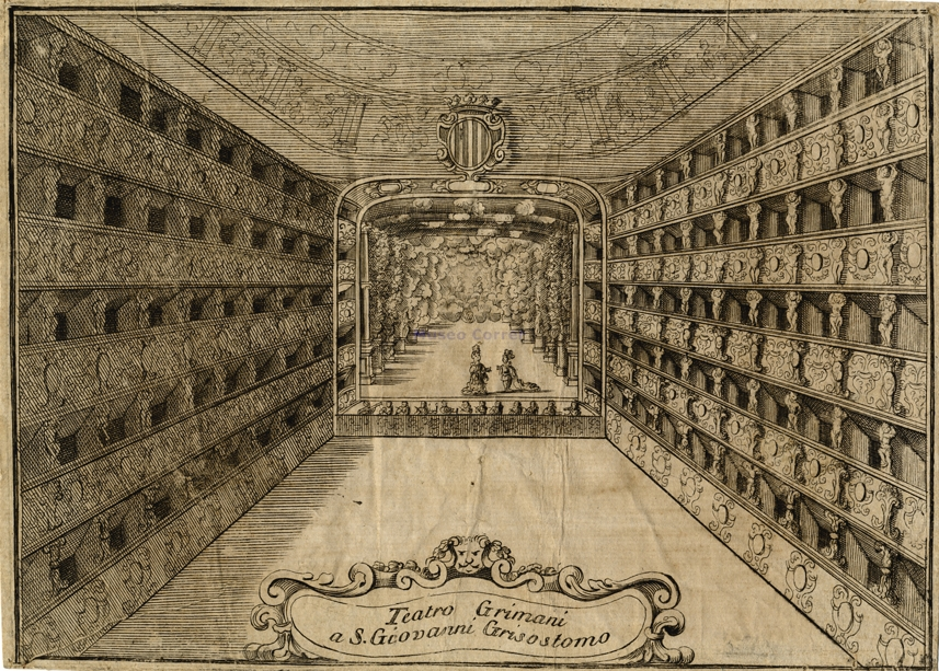 Vincenzo Maria Coronelli Interior view of the Teatro Grimani a San Giovanni Grisostomo in 1709 Original title according to the Museum's catalogue: Interno del Teatro Grimani size 184 x 254 mm Stored at: Museo Correr Venedig Museum catalogue search: ( Reg no.: P.D. 3503